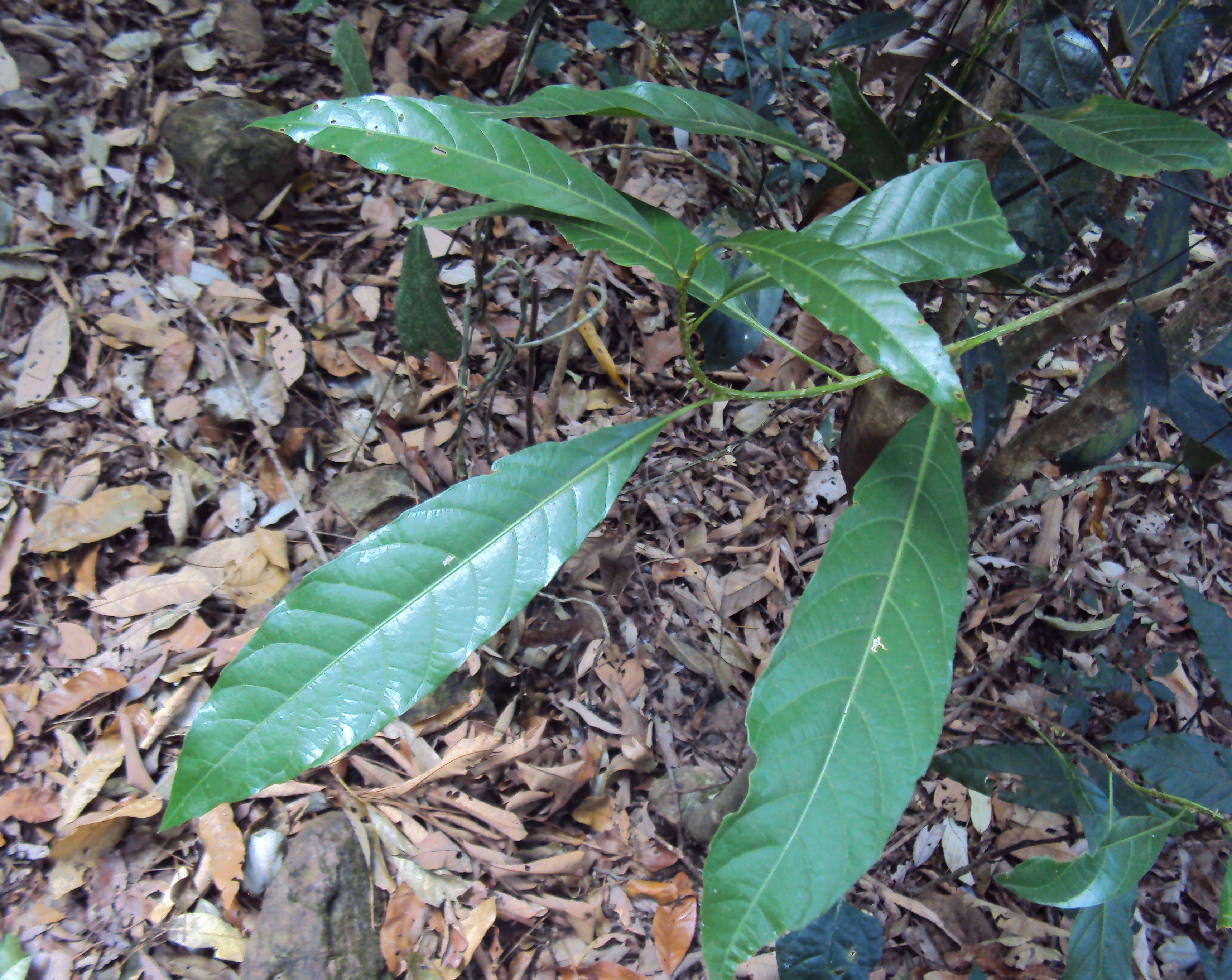 Agrostistachys indica